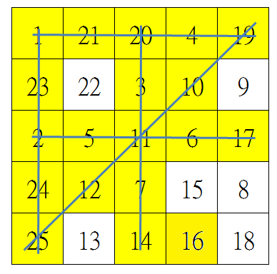 A bingo card used in taiwan. The yellow square means the number is checked. There are 5 lines (including 2 vertical lines, 2 horizontal lines and 1 digonal line).